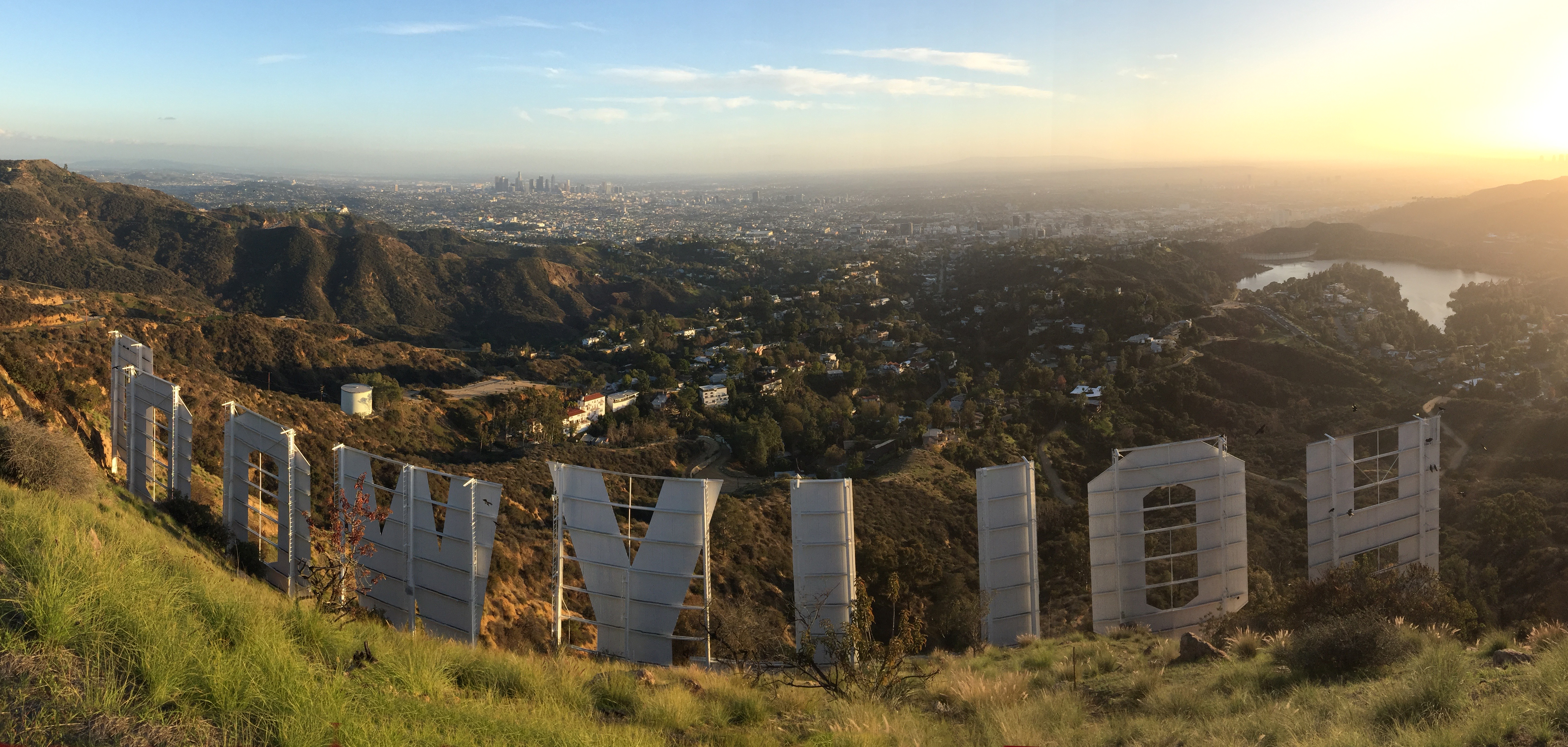 Taken from atop Mt. Lee showing the back of the Hollywood Sign. From left to right, the view includes the Griffith Observatory, downtown Los Angeles, Hollywoodland subdivision (near/below), the sprawl of Los Angeles, Lake Hollywood. Taken on January 6, 2019.